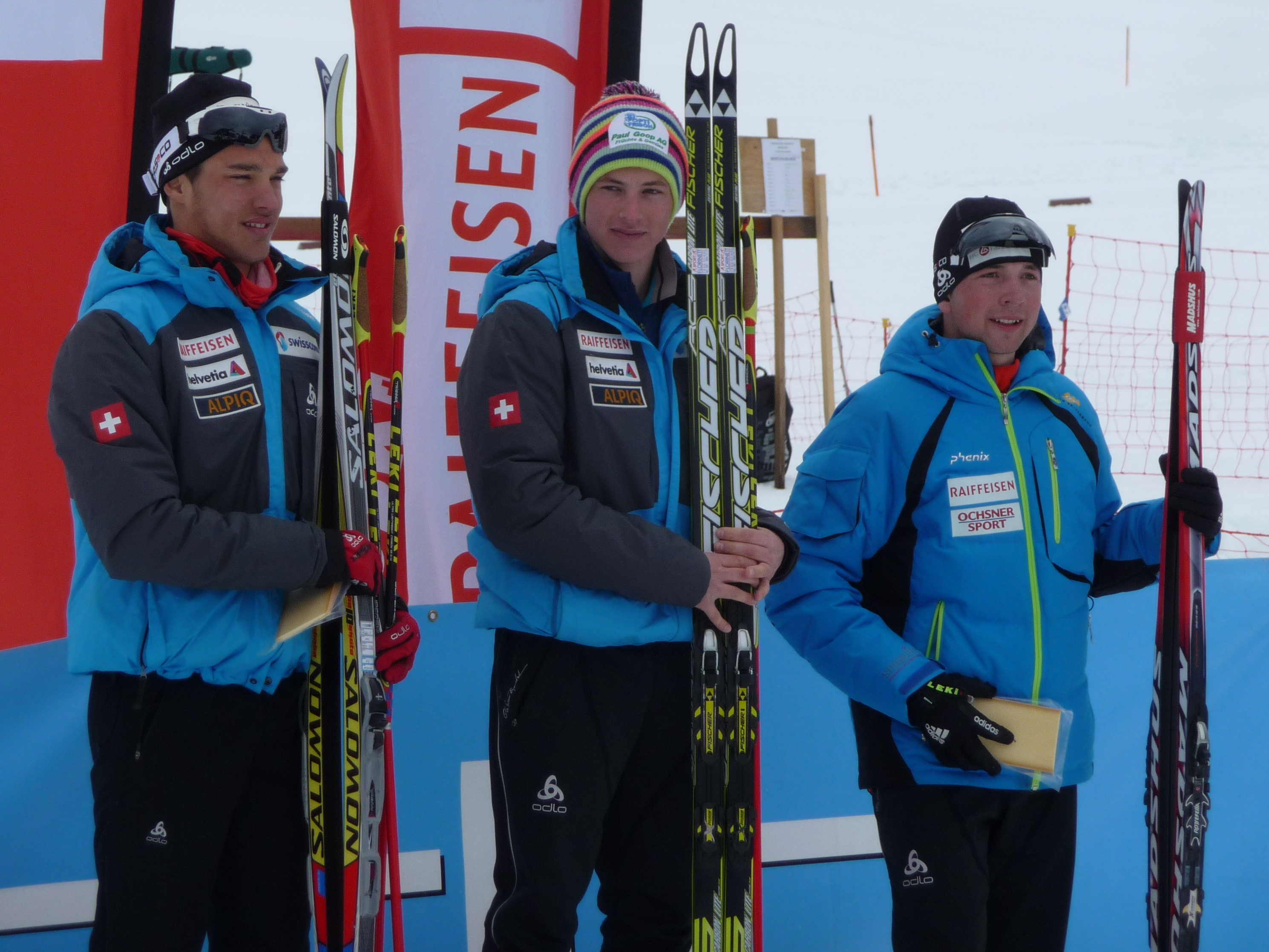 Swiss biathletes Kenneth Schöpfer, Severin Dietrich and Till Wiestner at National Championships in Biathlon 2013 (Podium Sprint Race U19) in La Lécherette, Switzerland